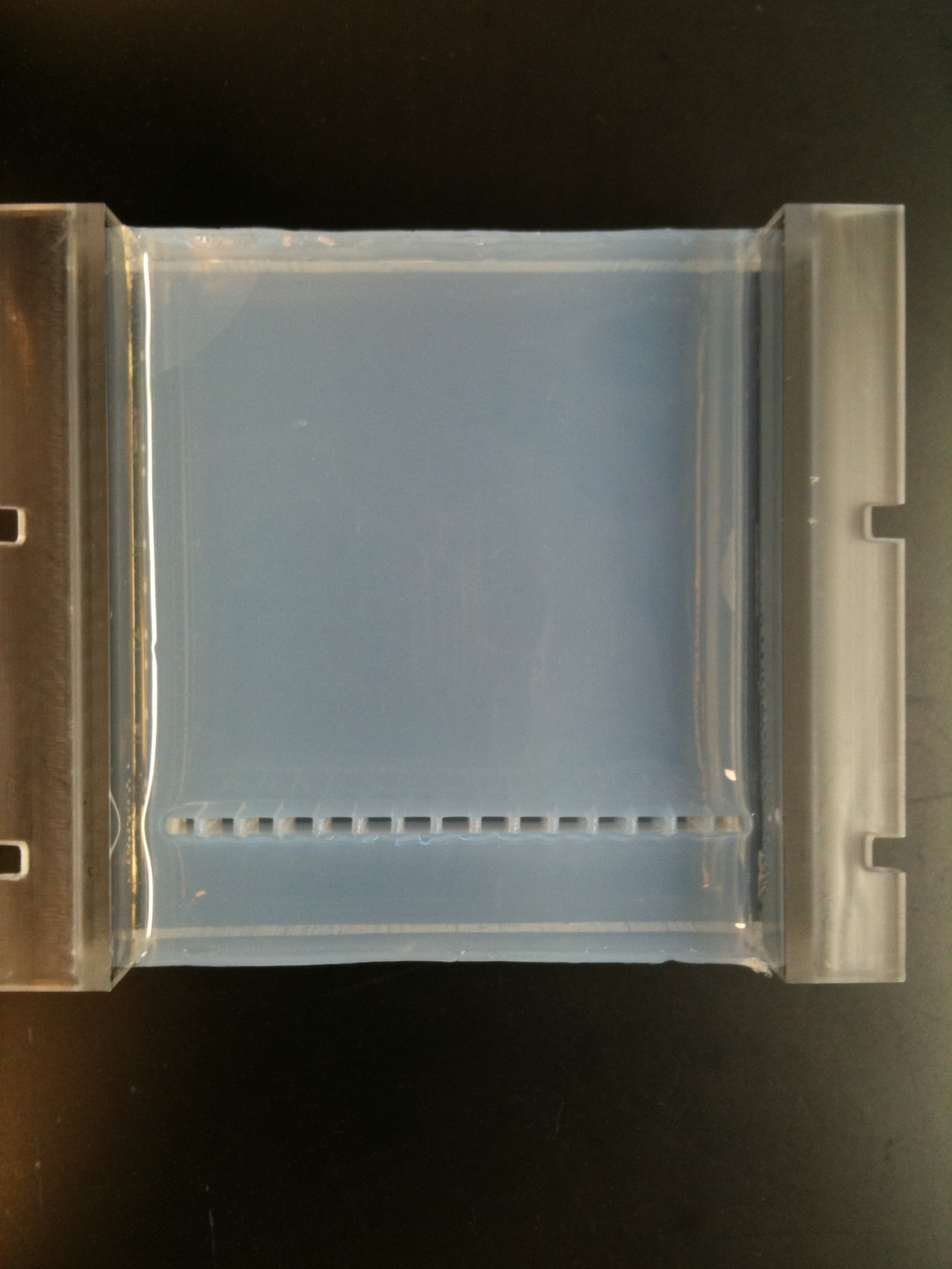 Photograph of a 2% agarose gel in borate buffer. This will be used in electrophoresis to separate bands of DNA based upon size and conformation. Each well is 6mm x 2mm (depth unknown).